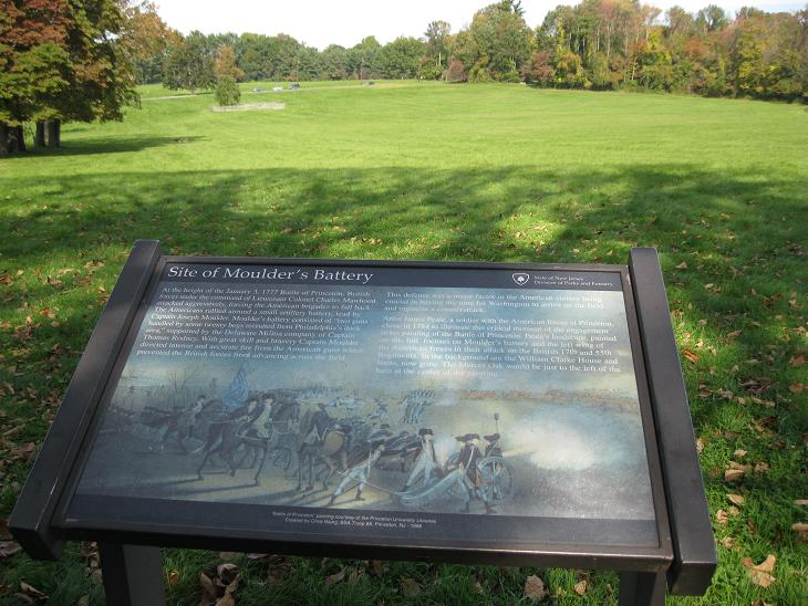 The site of Joseph Moulder's battery on the Princeton Battlefield, looking west. Mawhood's British soldiers advanced directly toward the camera.